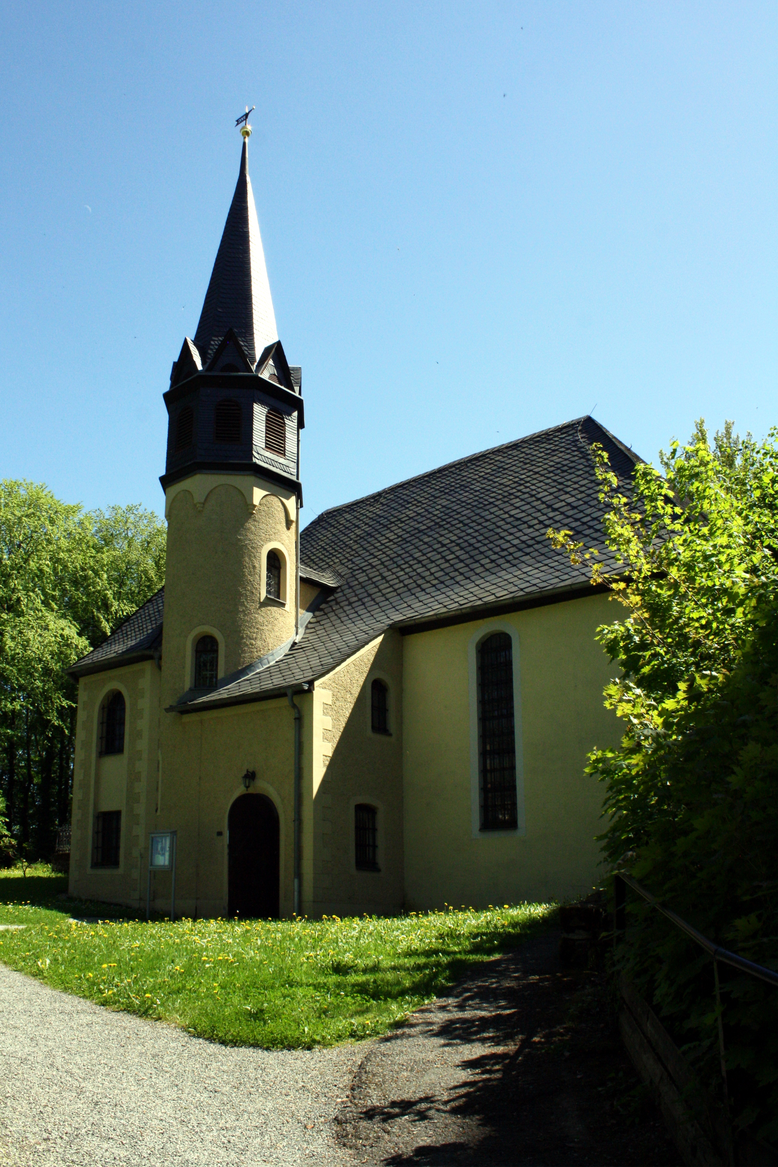 Church of castle in Posterstein near Gera in Thuringia/Germany